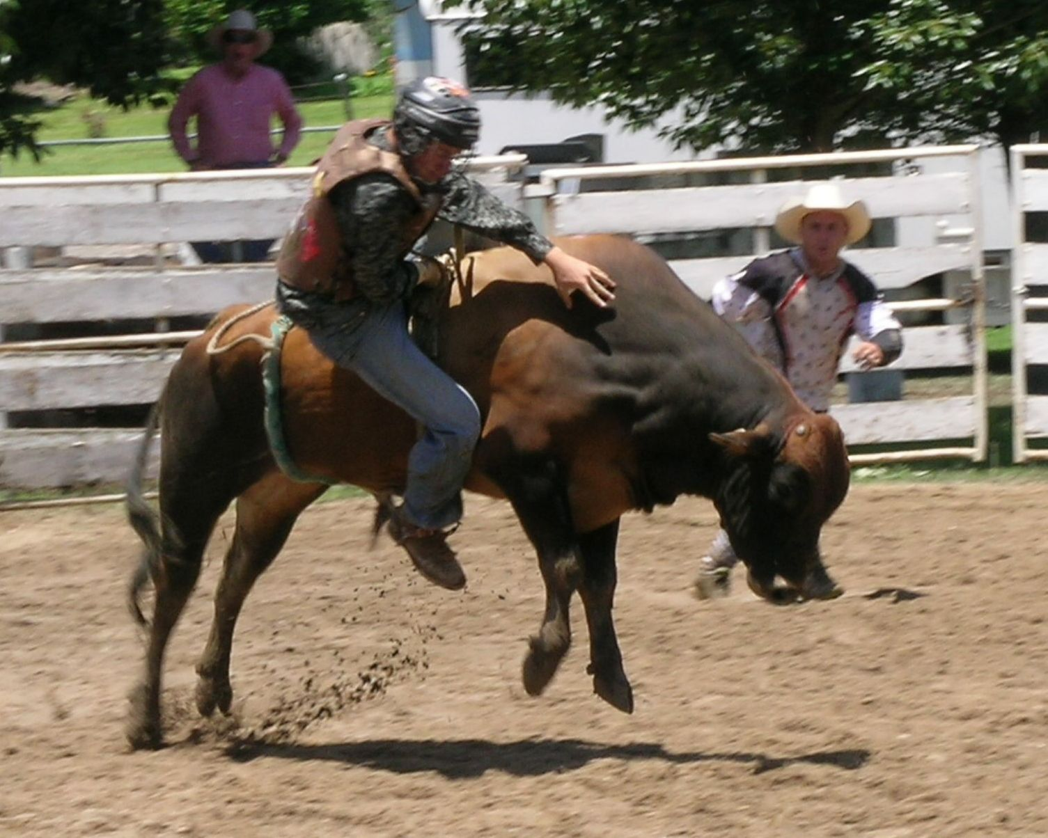 Bull riding, Walcha Rodeo.